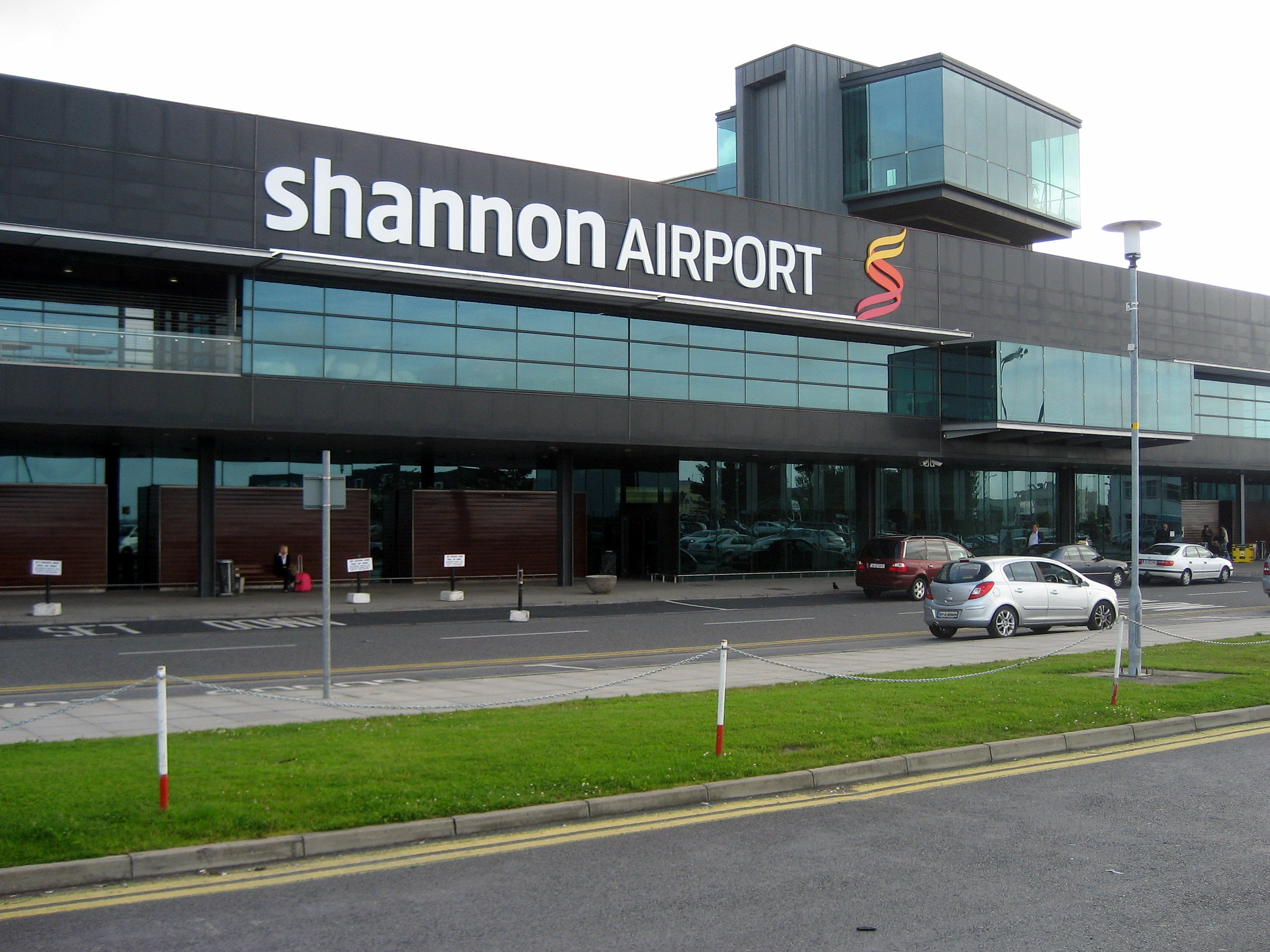 Shannon airport building